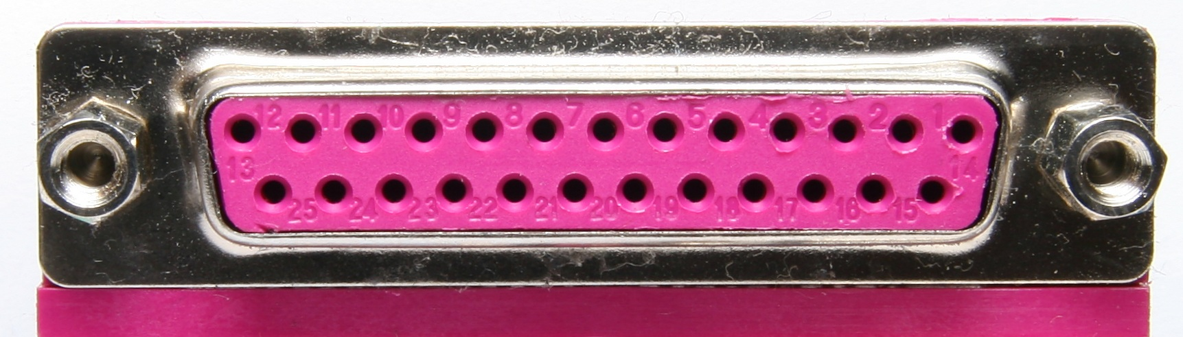 Parallel port (25-pin female Sub-D plug)